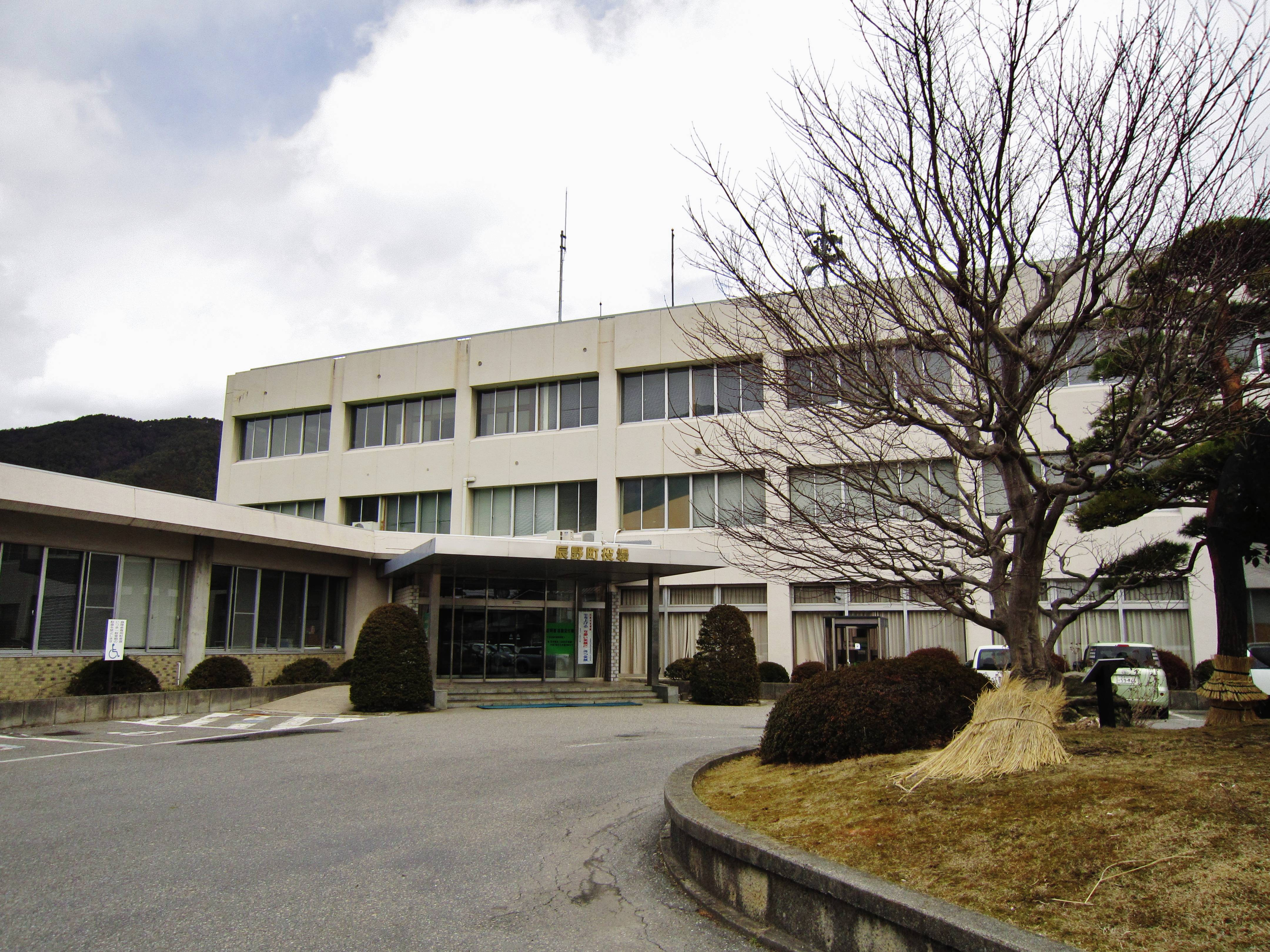 Tatsuno town office.